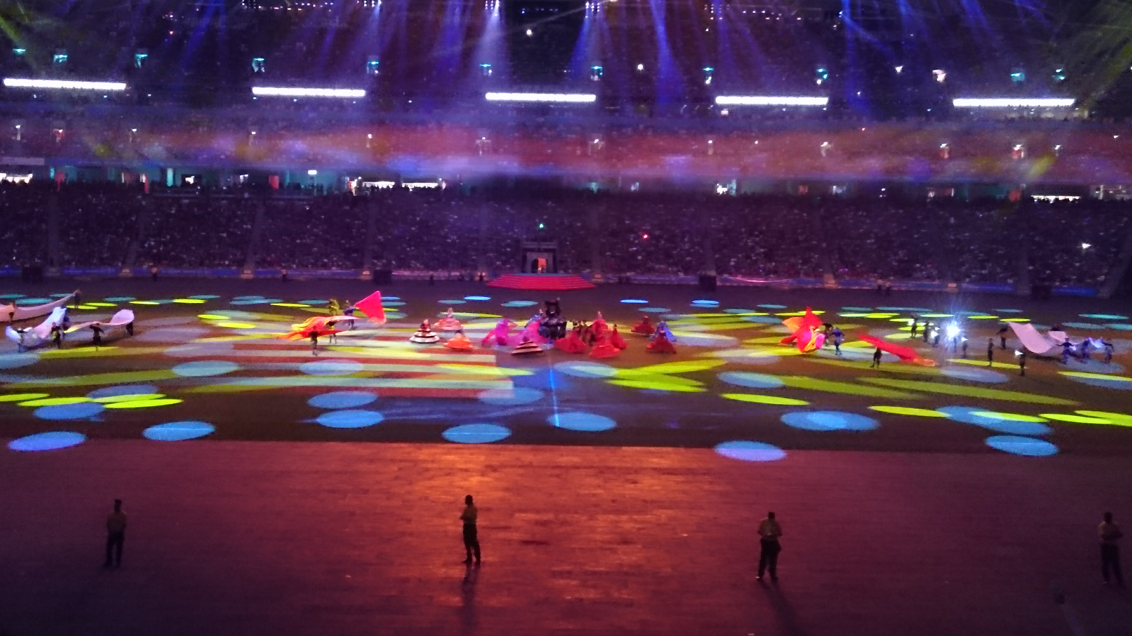 2015 Southeast Asian Games Closing Ceremonies held at the National Stadium, Singapore last June 16, 2015